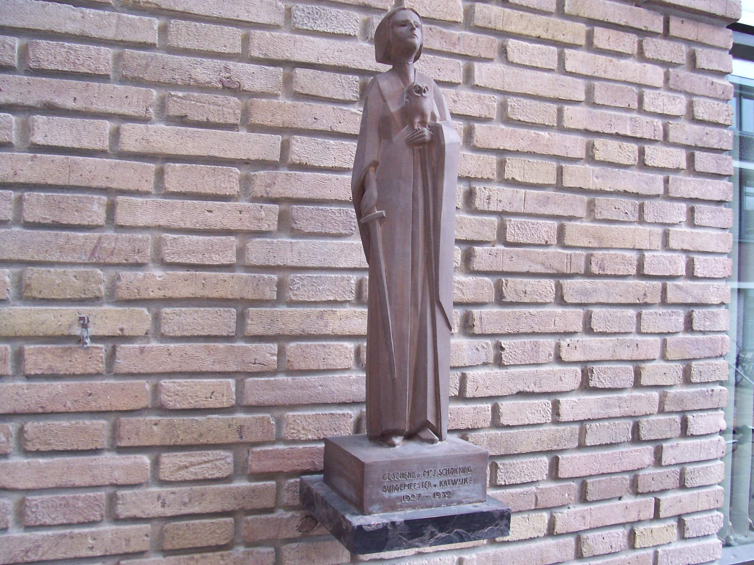 Miniature statue, in memory of Jan Schokking, mayor of Katwijk (1927-1932), city hall Katwijk. Bronze material.